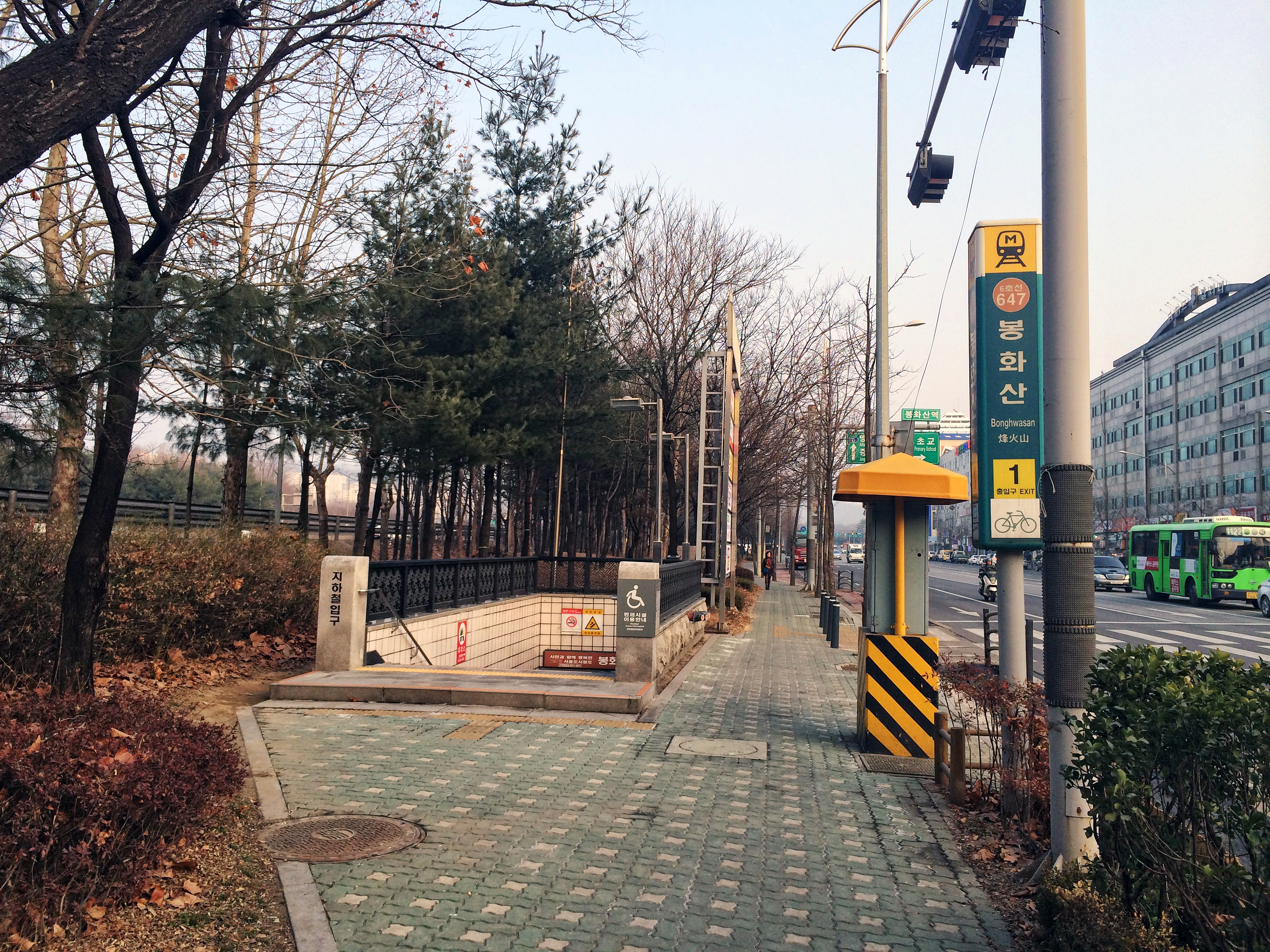 1st doorway of Bonghwasan (Seoul Medical Center) Station